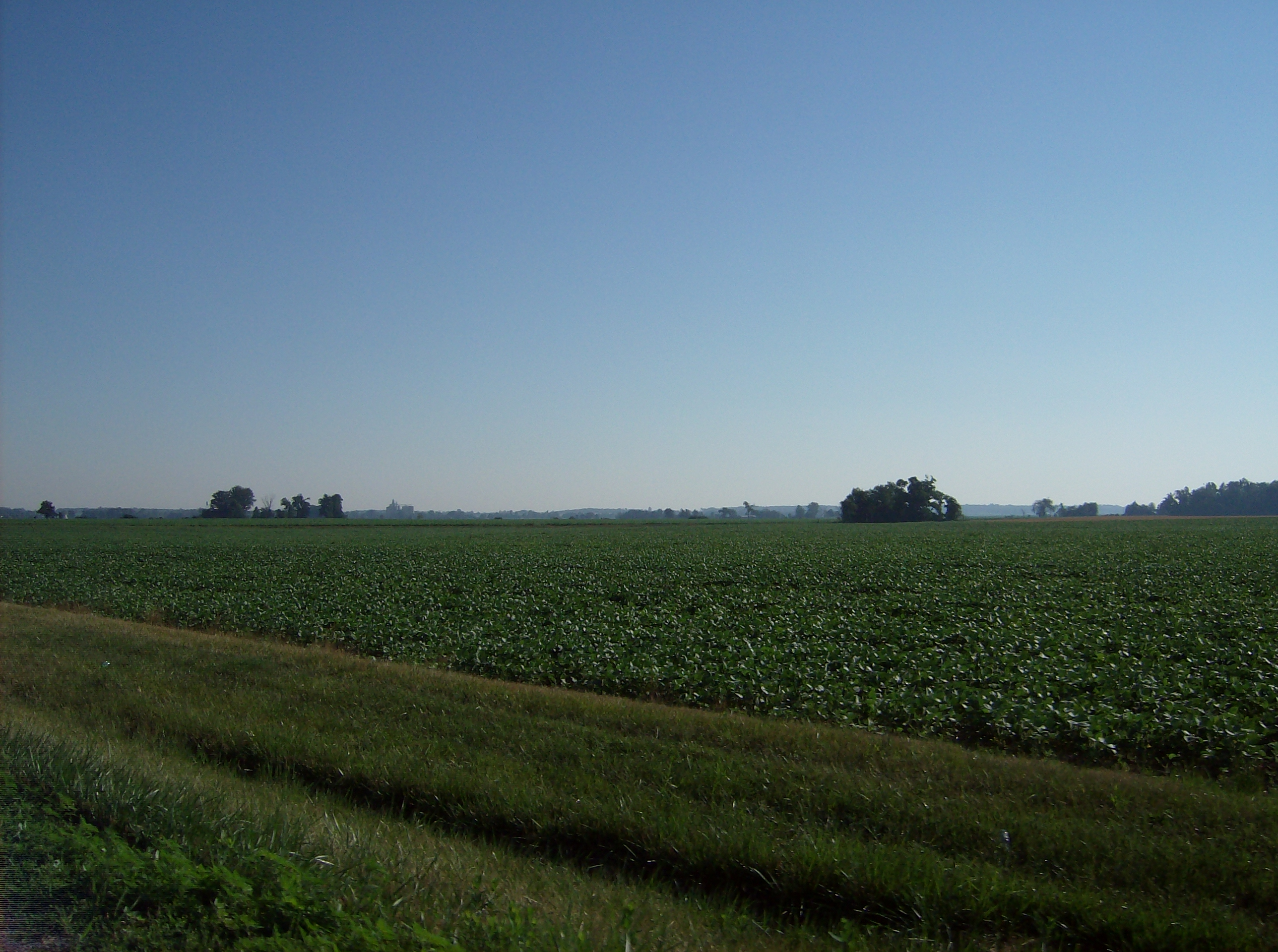 View of farmland in Marion Township, Hardin County, Ohio, United States. Picture taken looking northeastward from Ohio State Route 235.